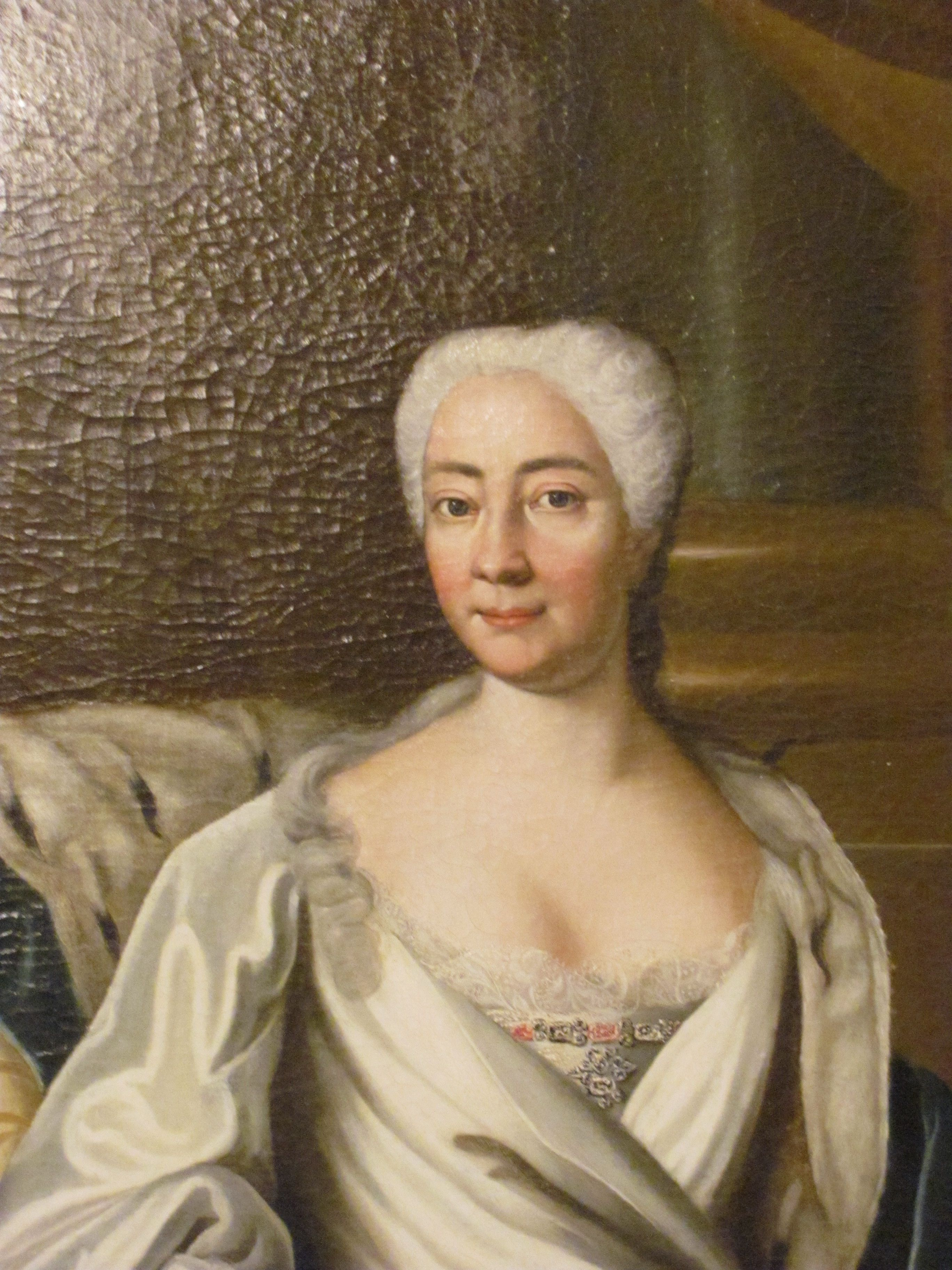 Princess Charlotte Wilhelmine of Saxe-Coburg-Saalfeld (1685-1767), married Countess von Hanau – Historisches Museum Hanau